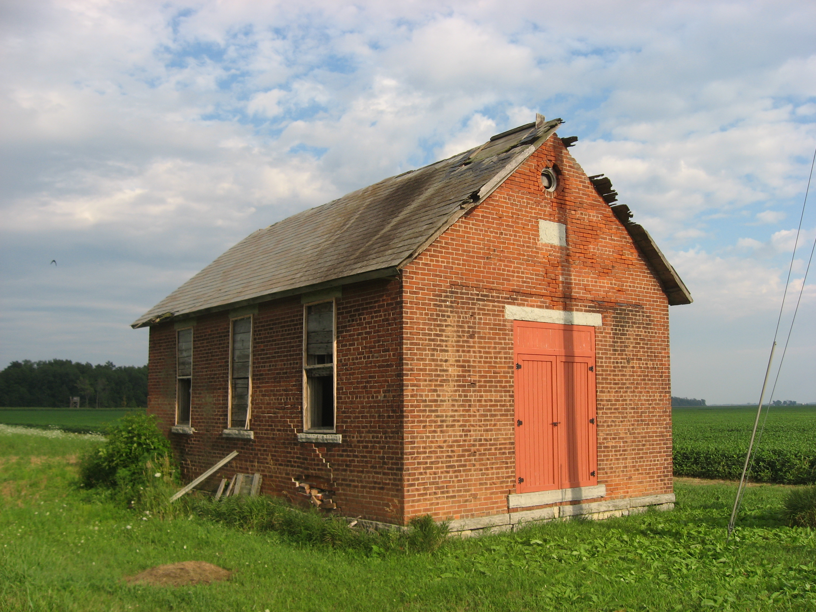 Former township school in Jackson Township, Paulding County, Ohio, United States, located immediately east of the intersection of County Road 111 and Township Road 117.